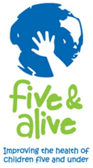 Corporate logo for Five and Alive, a program of Population Services International